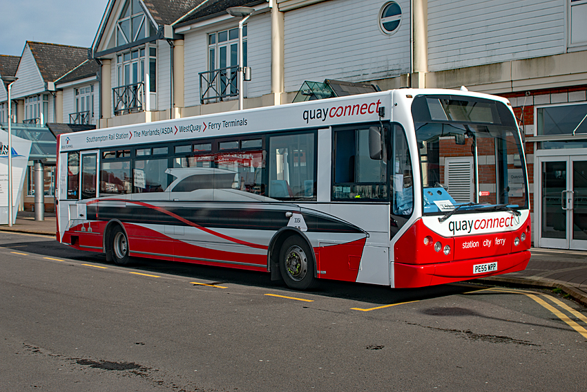 Dennis Dart SLF East Lancs, PE55 WPP, QuayConnect bus at the Red Funnel high speed terminal at Town Quay, Southampton. Bluestar fleet number 3351.